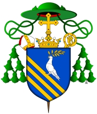 CoA